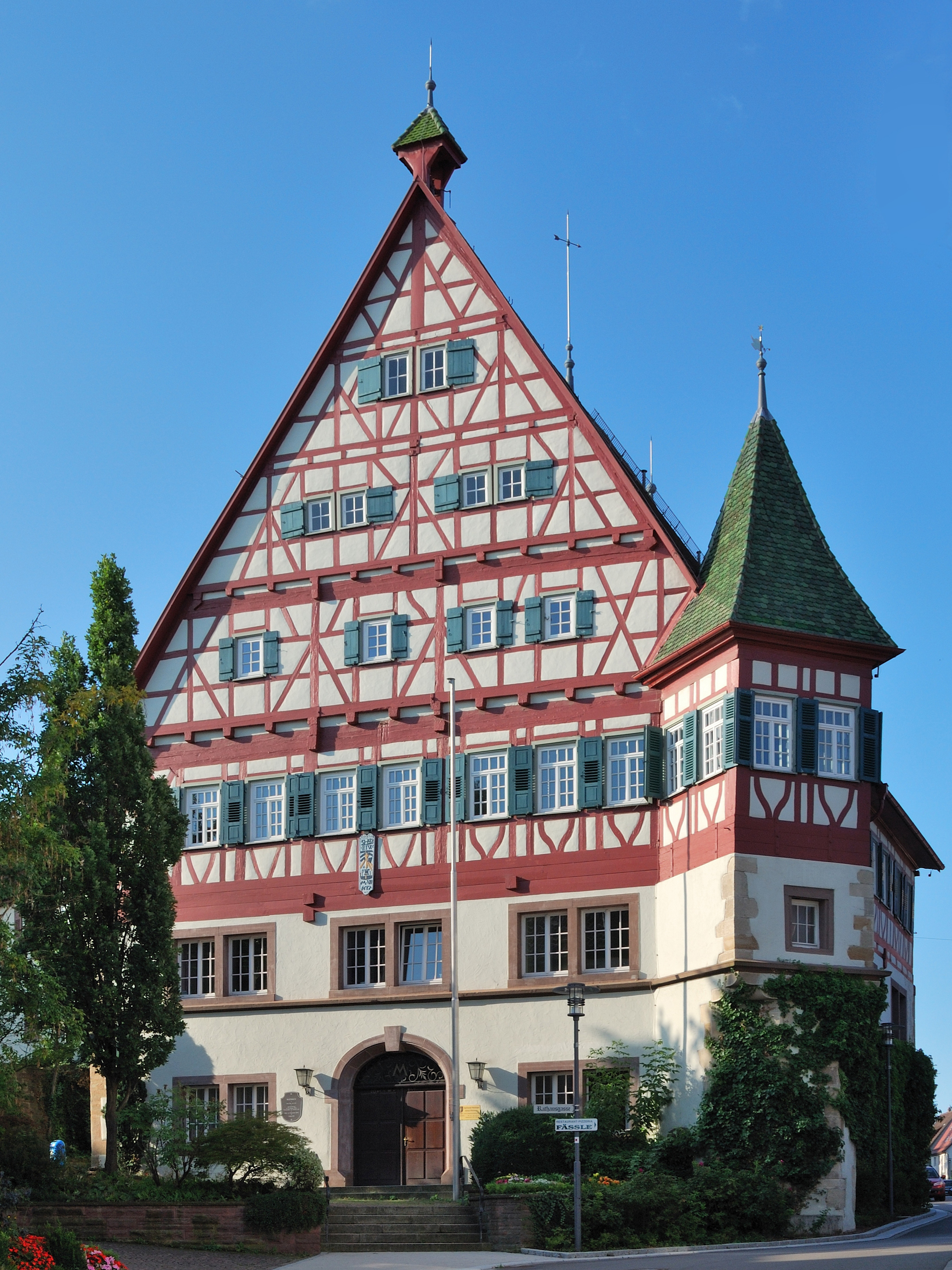 The municipal hall in Münchingen, Baden-Württemberg, Germany. The timber framed building from 1687 was rebuild in 1956/57. The main entrance at the north side.